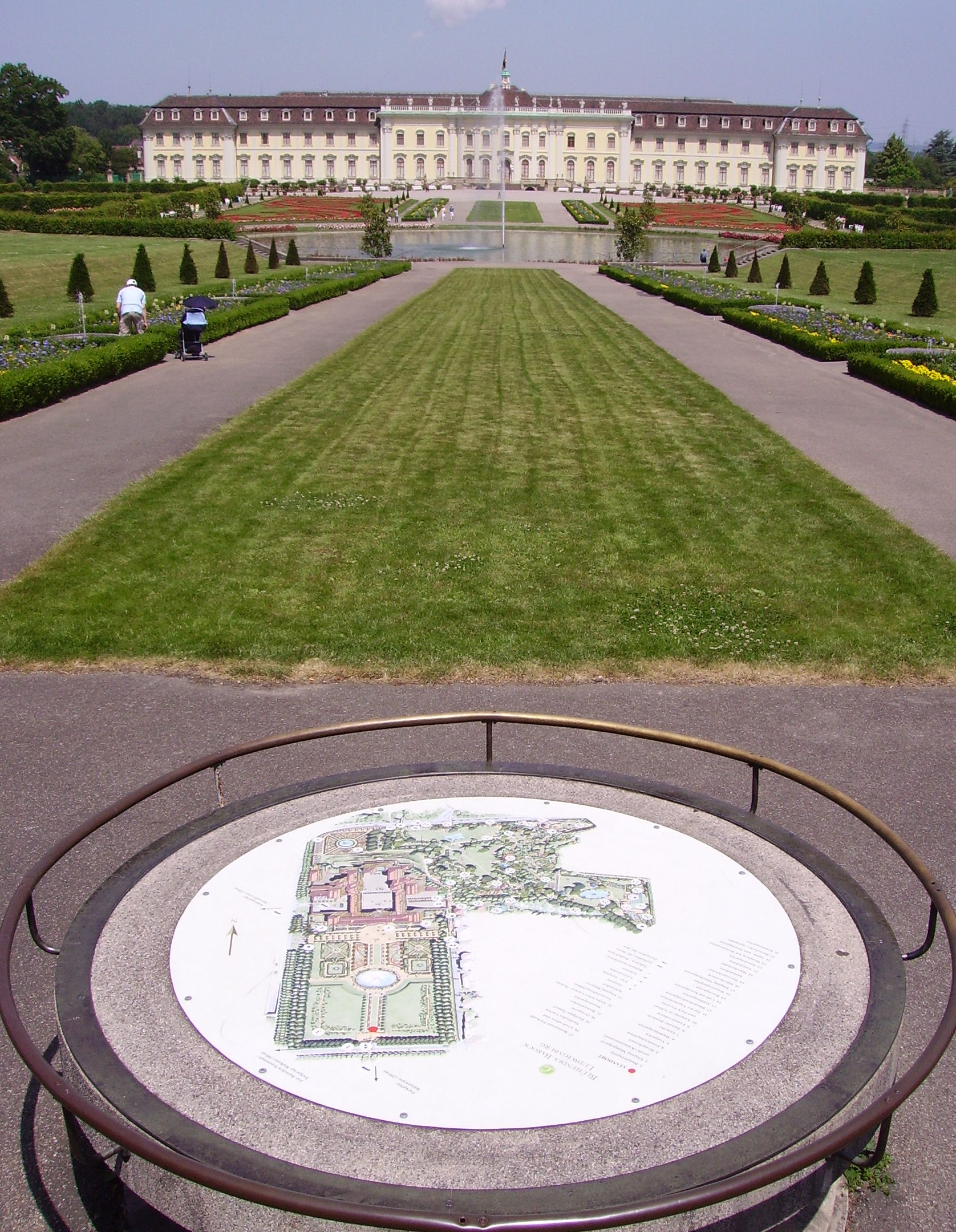 Map and view of the Baroque Garden at Schloss Ludwigsburg — in Ludwigsburg, Germany.